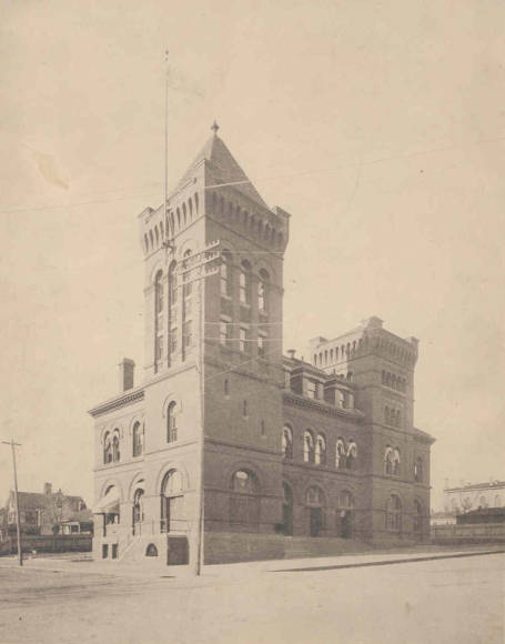 This work is in the public domain in its country of origin and other countries and areas where the copyright term is the author's life plus 70 years or less. You must also include a United States public domain tag to indicate why this work is in the public domain in the United States. Note that a few countries have copyright terms longer than 70 years: Mexico has 100 years, Jamaica has 95 years, Colombia has 80 years, and Guatemala and Samoa have 75 years. This image may not be in the public domain in these countries, which moreover do not implement the rule of the shorter term. Côte d'Ivoire has a general copyright term of 99 years and Honduras has 75 years, but they do implement the rule of the shorter term. Copyright may extend on works created by French who died for France in World War II (more information), Russians who served in the Eastern Front of World War II (known as the Great Patriotic War in Russia) and posthumously rehabilitated victims of Soviet repressions (more information). This file has been identified as being free of known restrictions under copyright law, including all related and neighboring rights. Built in 1889 as US Courthouse and Post Office. Became City Hall in 1938. Razed ca. 1972. Original photograph: Greenville County Library, South Carolina Room Archives. Buildings, photo no. 24 Subject Greenville (S.C.) "This image is free from copyright and may be used without prior consent. "